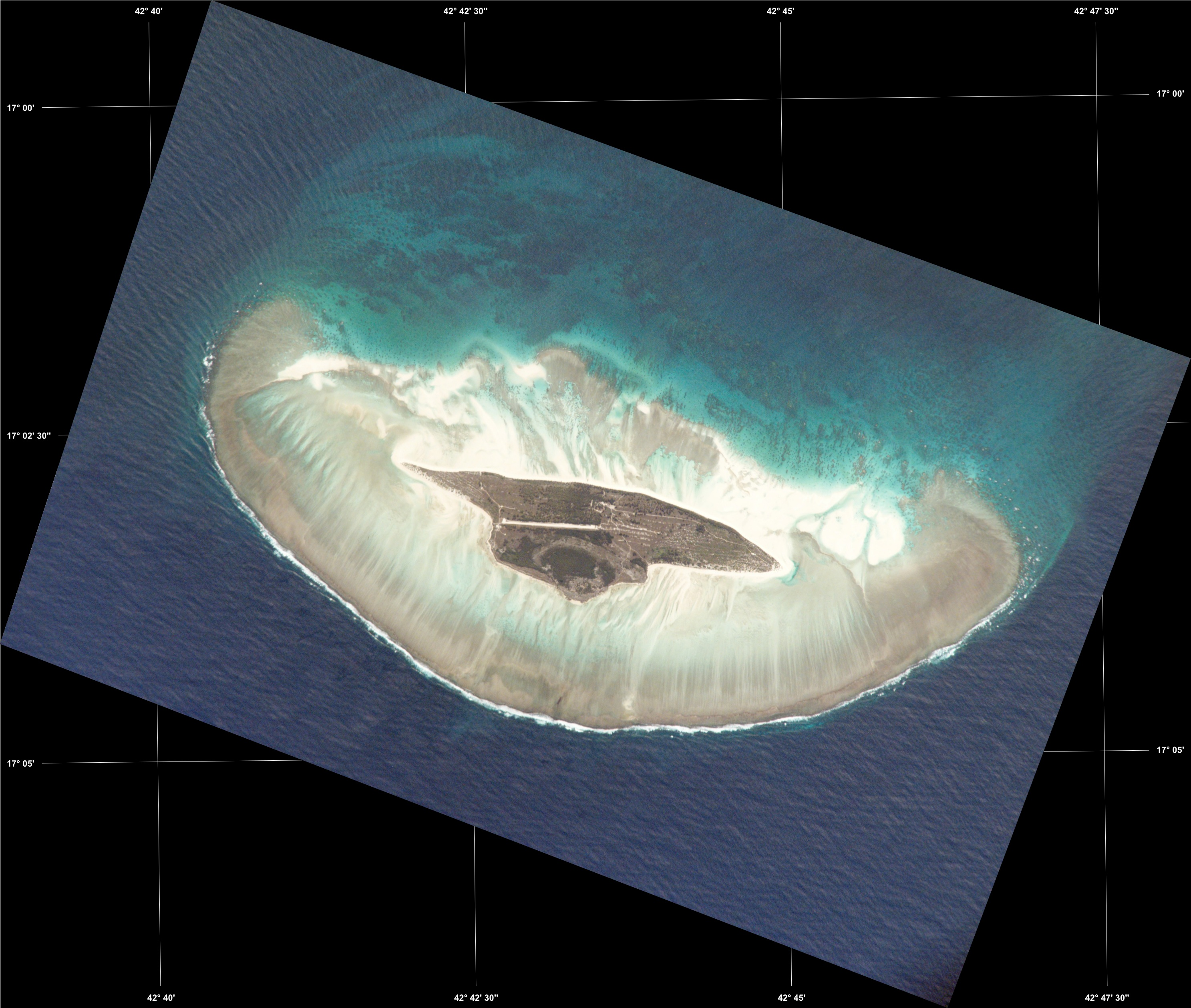 Photograph of the French island of Juan de Nova, Scattered islands in the Indian Ocean, taken from the International Space Station. Oriented, georectified and completed by the uploader UTM projection, WGS84 datum